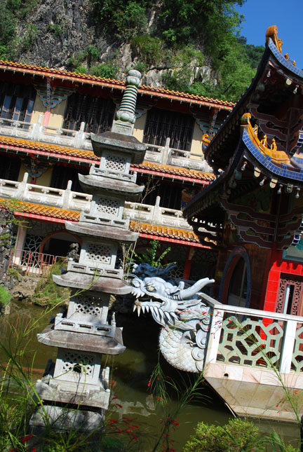 A heaven-like setting in the temple's garden; complete with a mini pagoda and a big 'sailing' dragon boat. Picture was taken at Sam Poh Tong Cave Temple in ipoh, Perak.